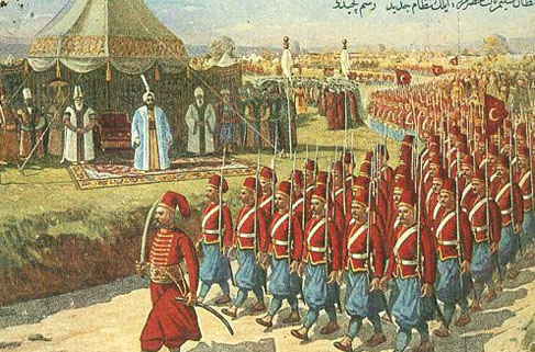 Nizam-i Djedid Army during a parade.